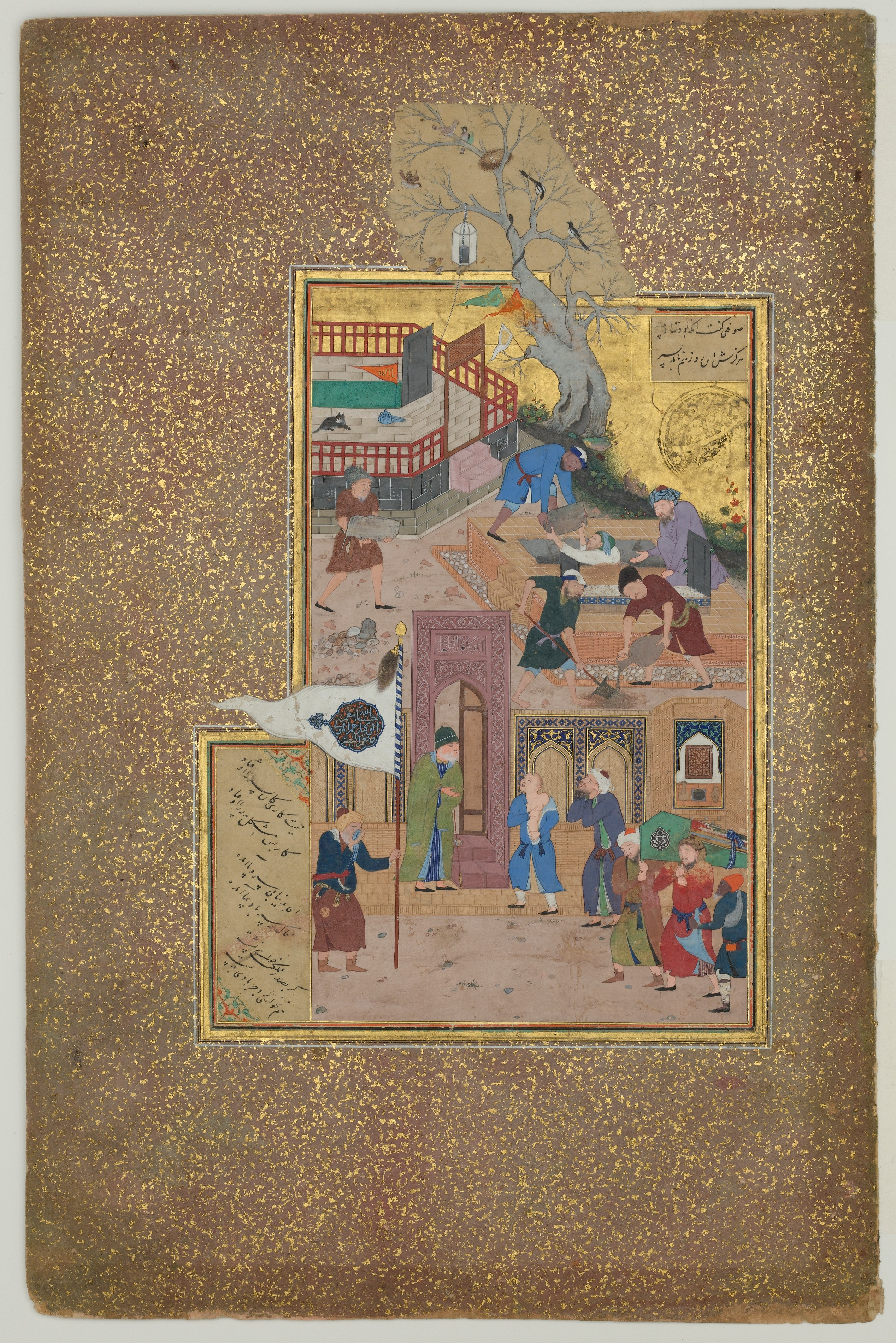 Folio from an illustrated manuscript; Codices